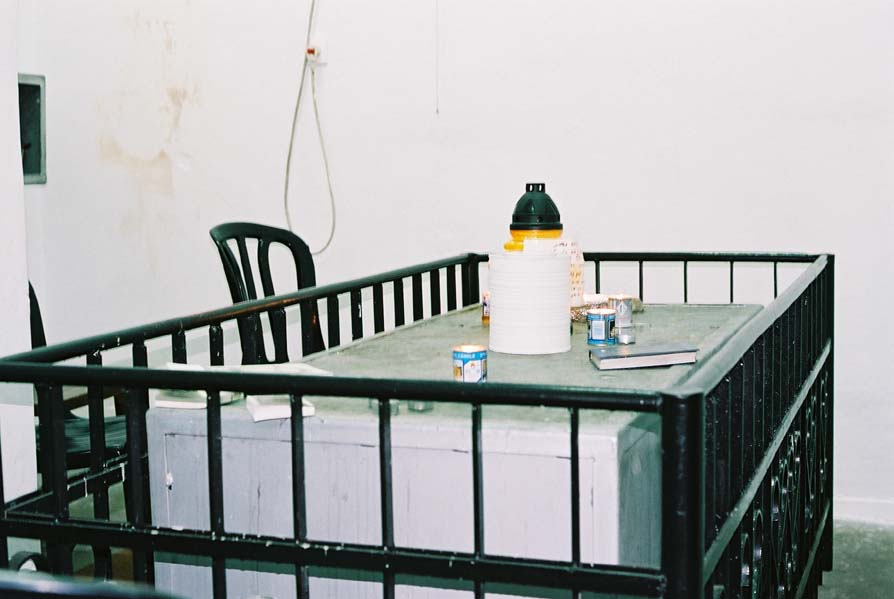 gravestone of David of Lelov